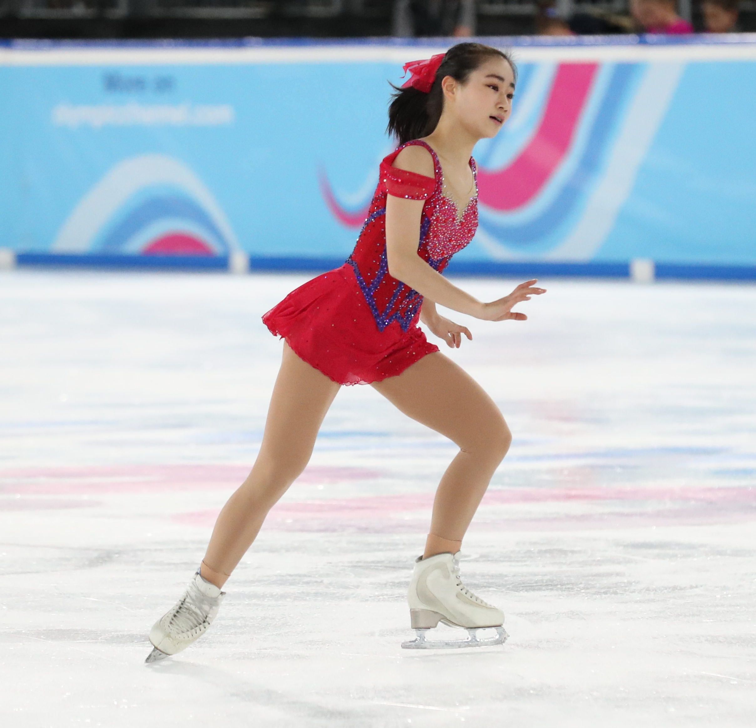 Women Single Figure Skating Short Program at the 2020 Winter Youth Olympics in Lausanne